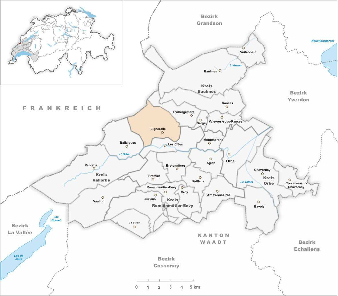 Municipality Lignerolle